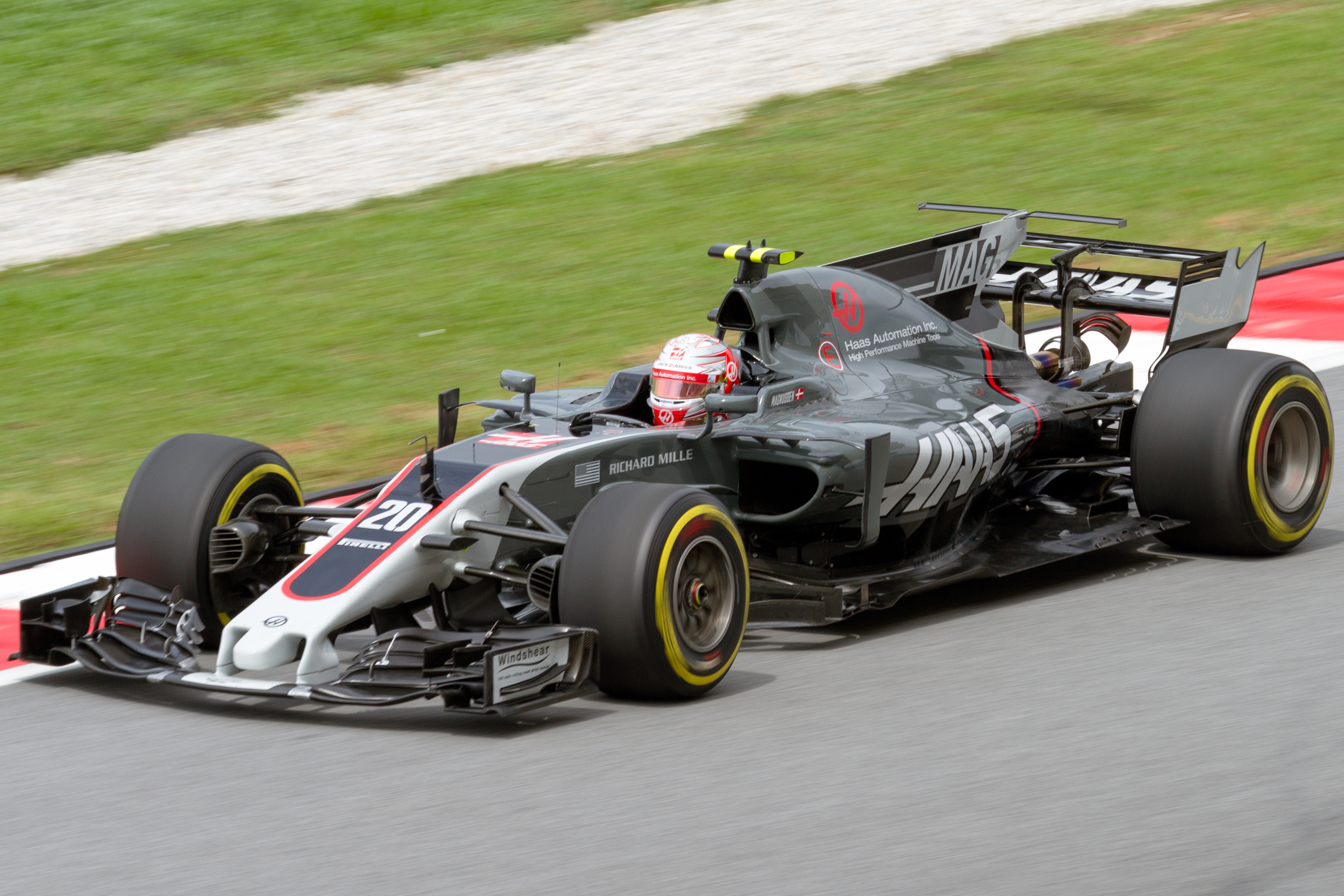 Formula One 2017 Rd.15 Malaysian GP: Kevin Magnussen (Haas F1 Team)